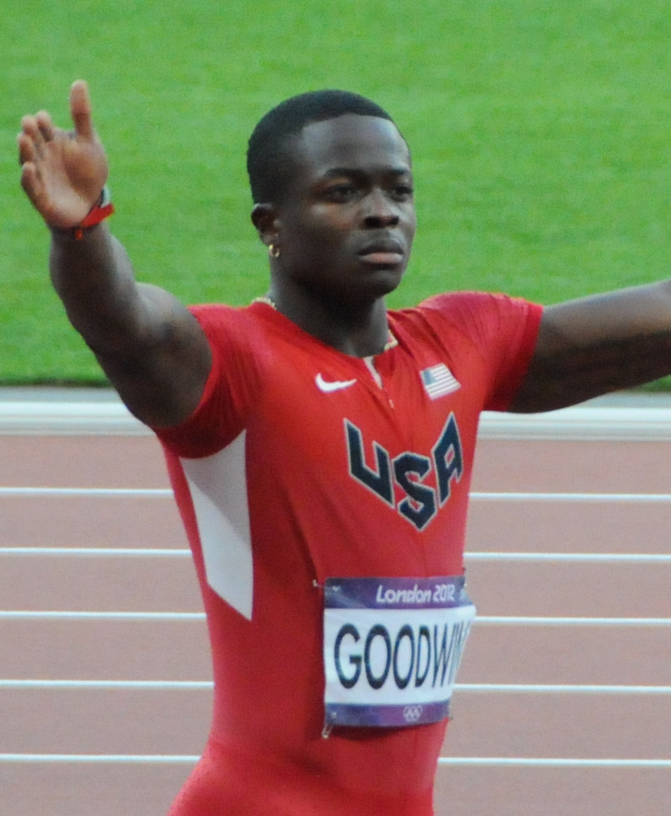 American long jumper Marquise Goodwin, taken at The London 2012 Summer Olympic Games